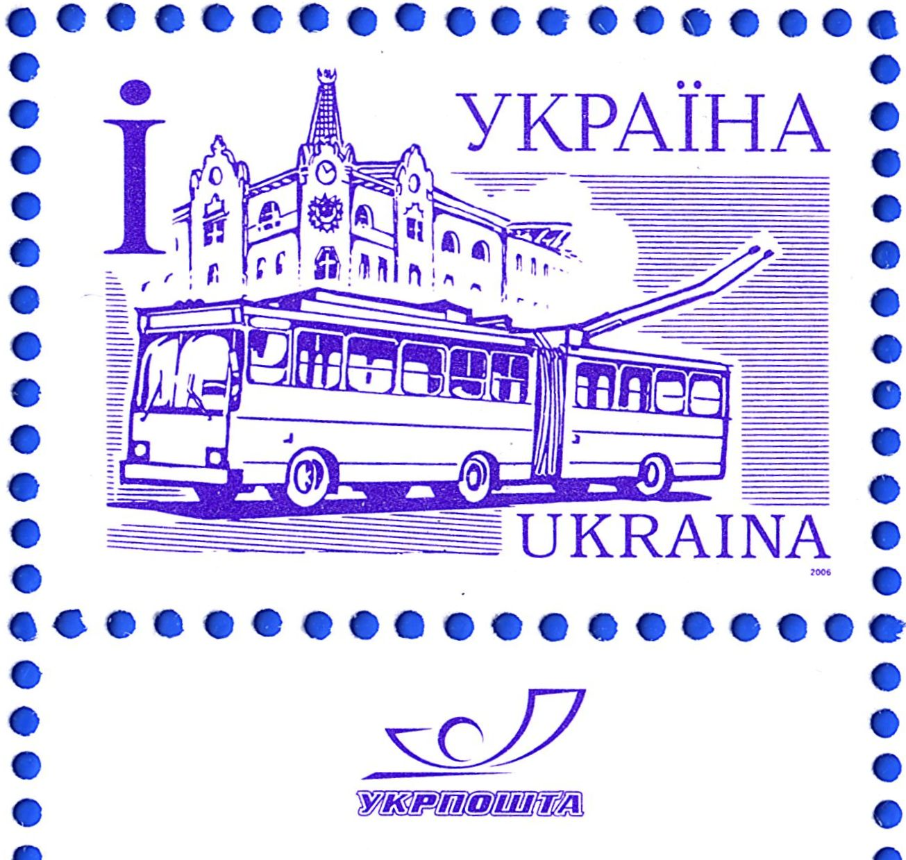 2006 Ukraine definitive stamp, with an "i" non-denominated postage.